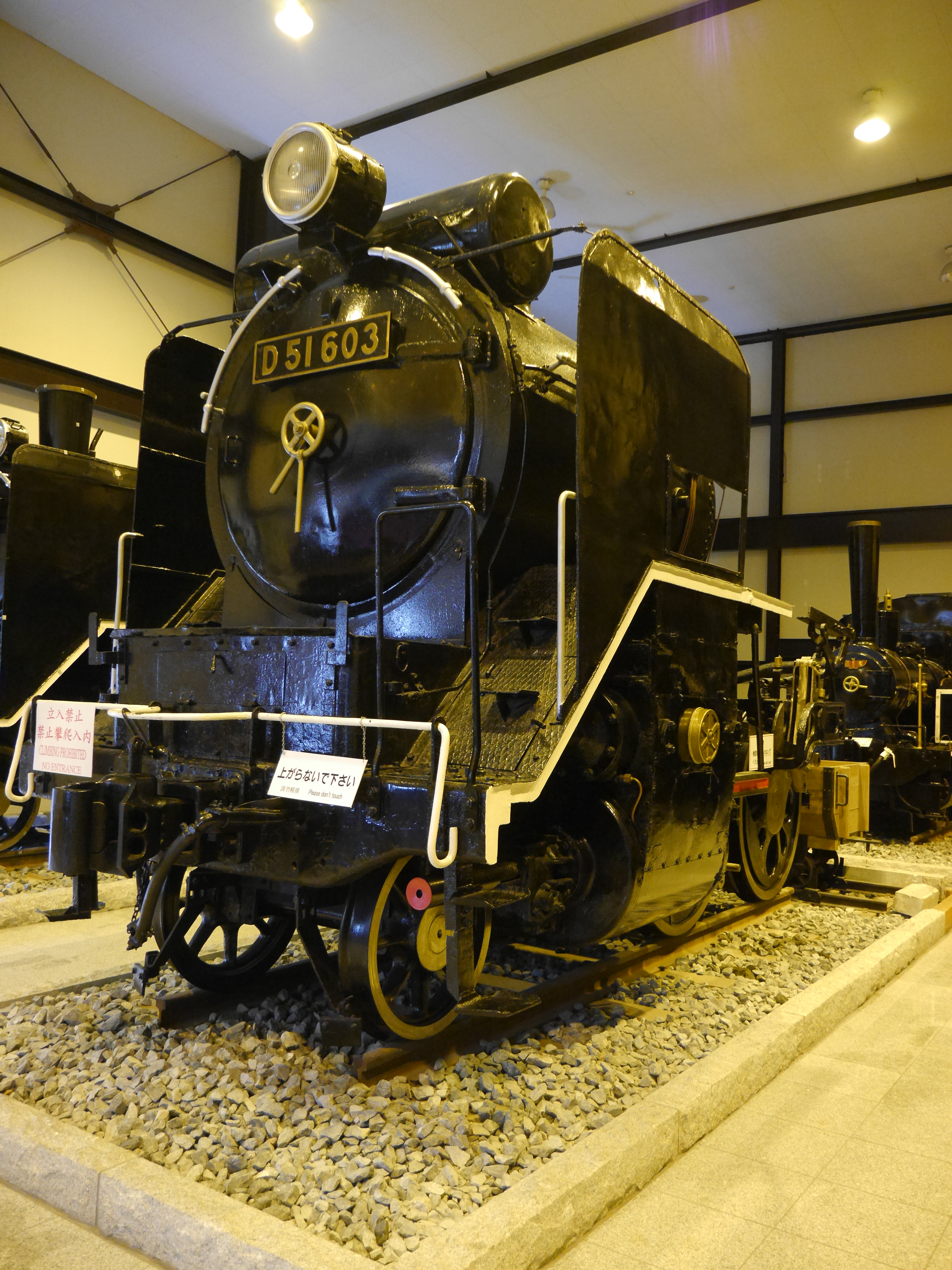 A part of D51 603 Steam engine at the 19th century hall adjacent to Torokko Saga station